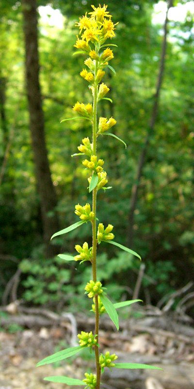 Scientific Name: Solidago erecta Pursh Common Name: Showy Goldenrod Certainty: positive (notes) Location: Central Appalachians; George Washington NF; Shenandoah Mt Date: 20060730